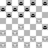 Opening "Igra Ramma-Cukernika" (Игра Рамма — Цукерника) in russian checkers